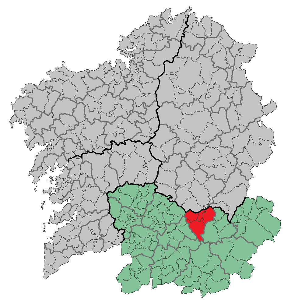 Region of Galicia (Spain) Based in: Image:Location of Betanzos.png Source: Designed by Leoplus. Original picture, designed by Caiser over a work made by Alyssalover.